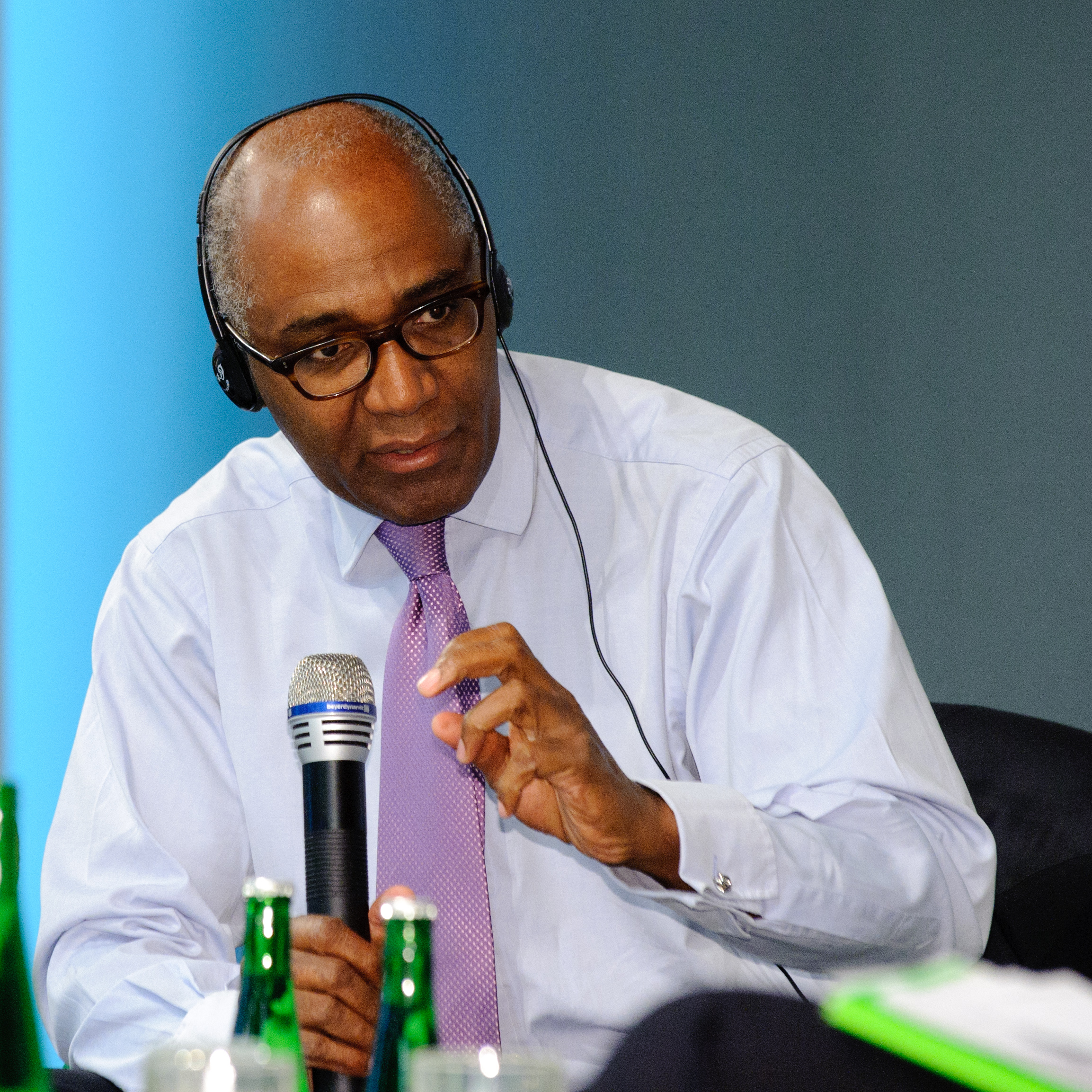 Trevor Phillips (Chair of the Equality and Human Rights Commission, London) Foto: CC-BY-SA Stephan Röhl /